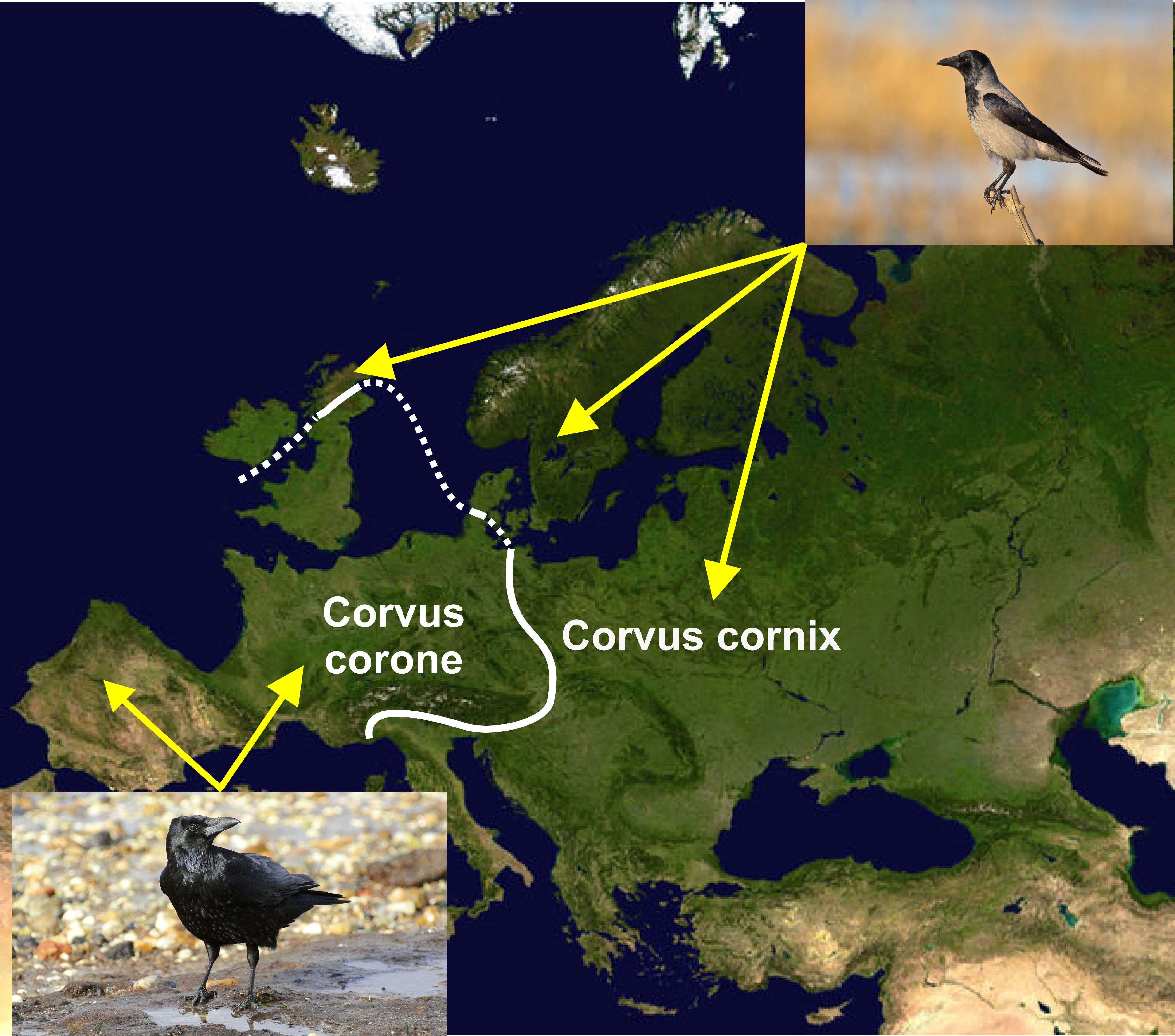 Composite image of a map of Europe (File:Europe satellite globe.jpg) and the distribution of the Carrion Crow Corvus corone (File:Corvus corone -near Canford Cliffs, Poole, England-8.jpg) and Hooded Crow Corvus cornix (File:Nebelkrähe Corvus cornix.jpg) The white line indicates the contact zone between the two species - the Carrion Crows occurring to west and south of the line; the Hooded Crows to the east and north of the line.